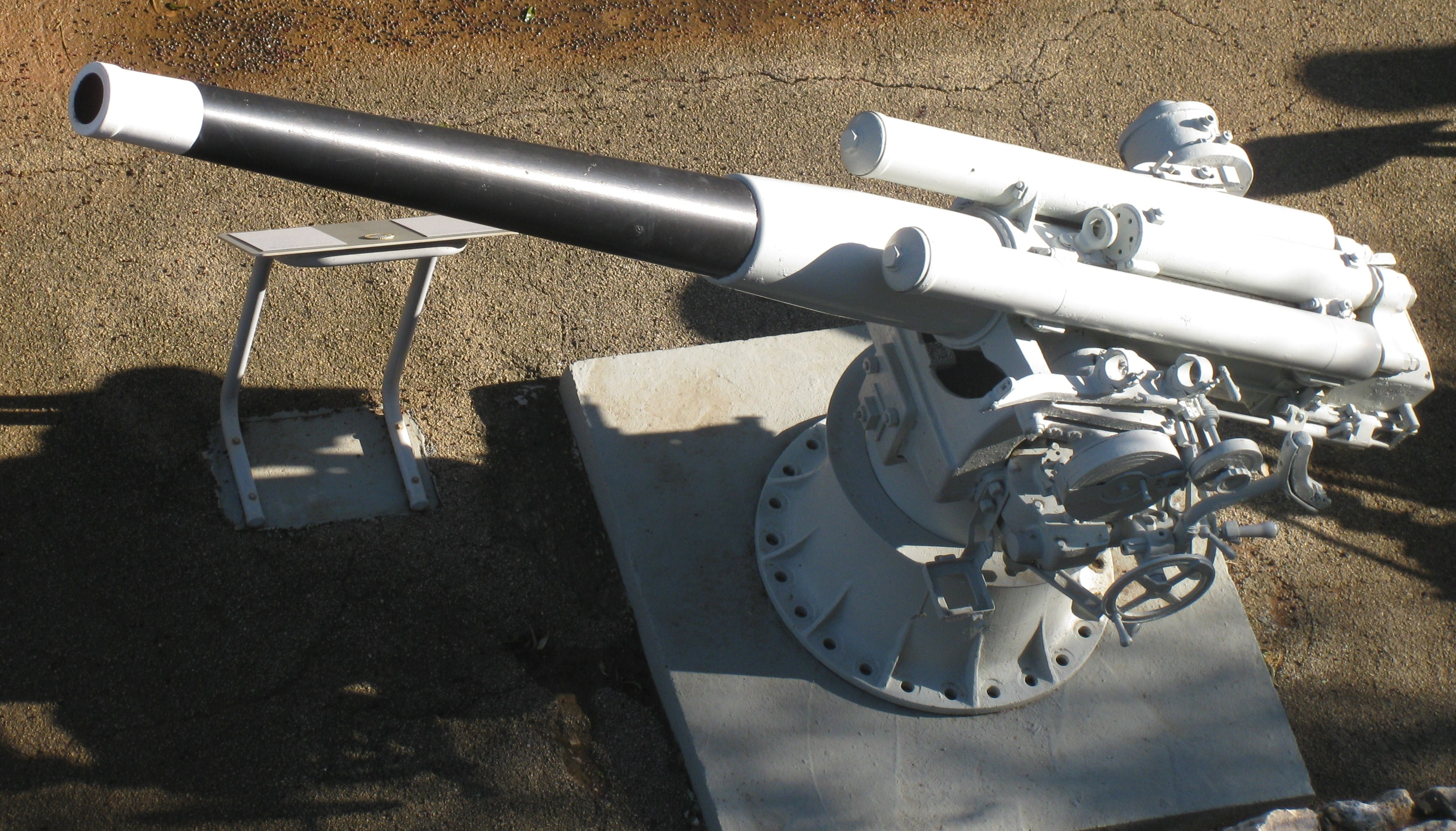 Clandestine Immigration and Naval Museum, Haifa מוזיאון ההעפלה וחיל הים